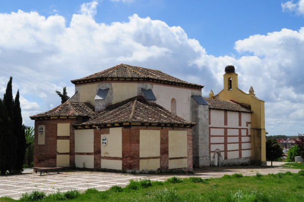 Hermitage of Nuestra Señora del Villar, Laguna de Duero, Valladolid, Spain